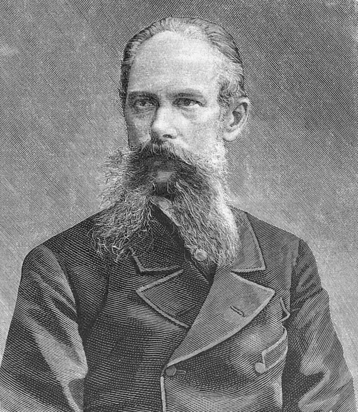 Alexandr Nelidov (1835-1910) Diplomat of Russia